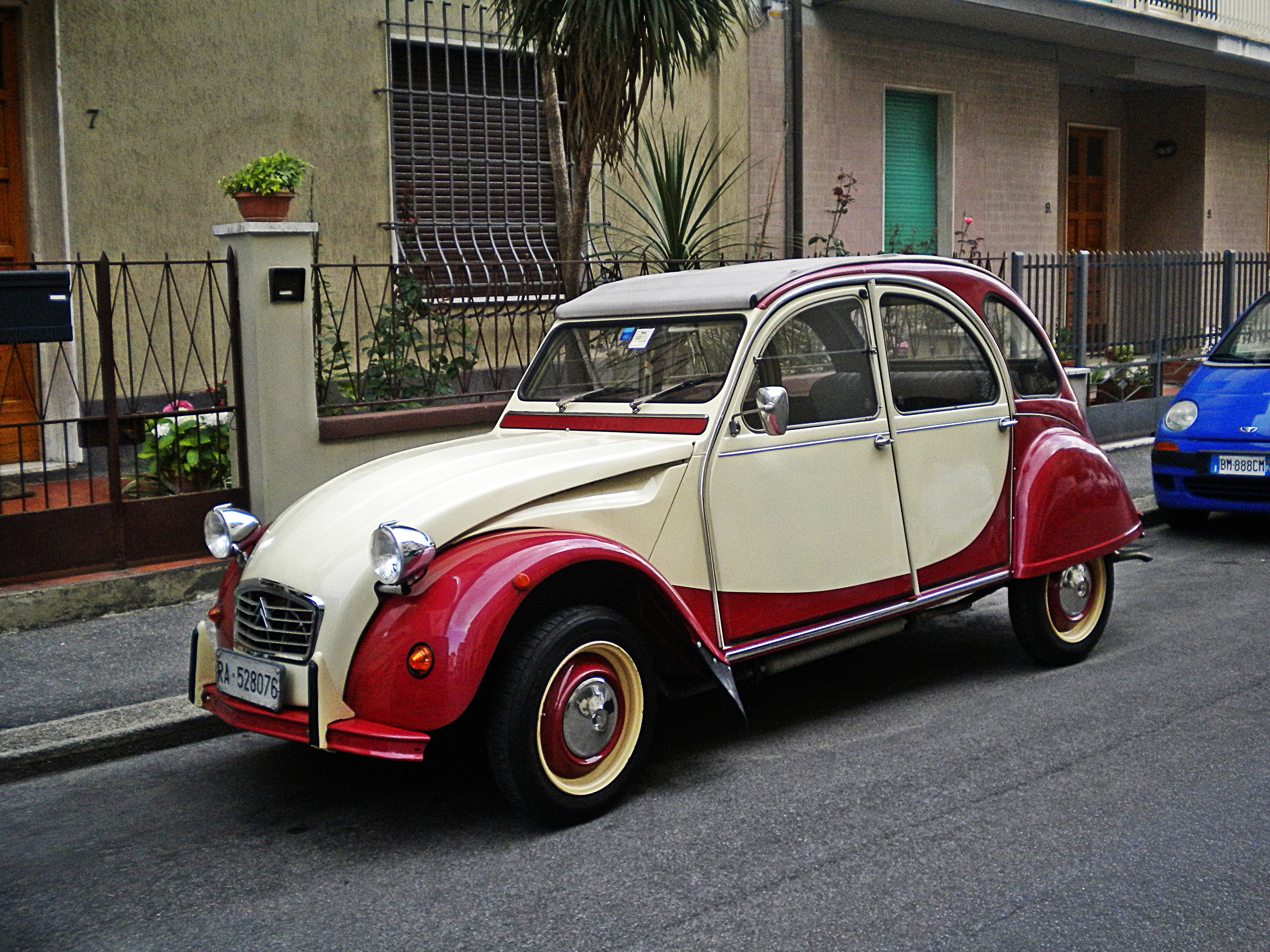 2 cv